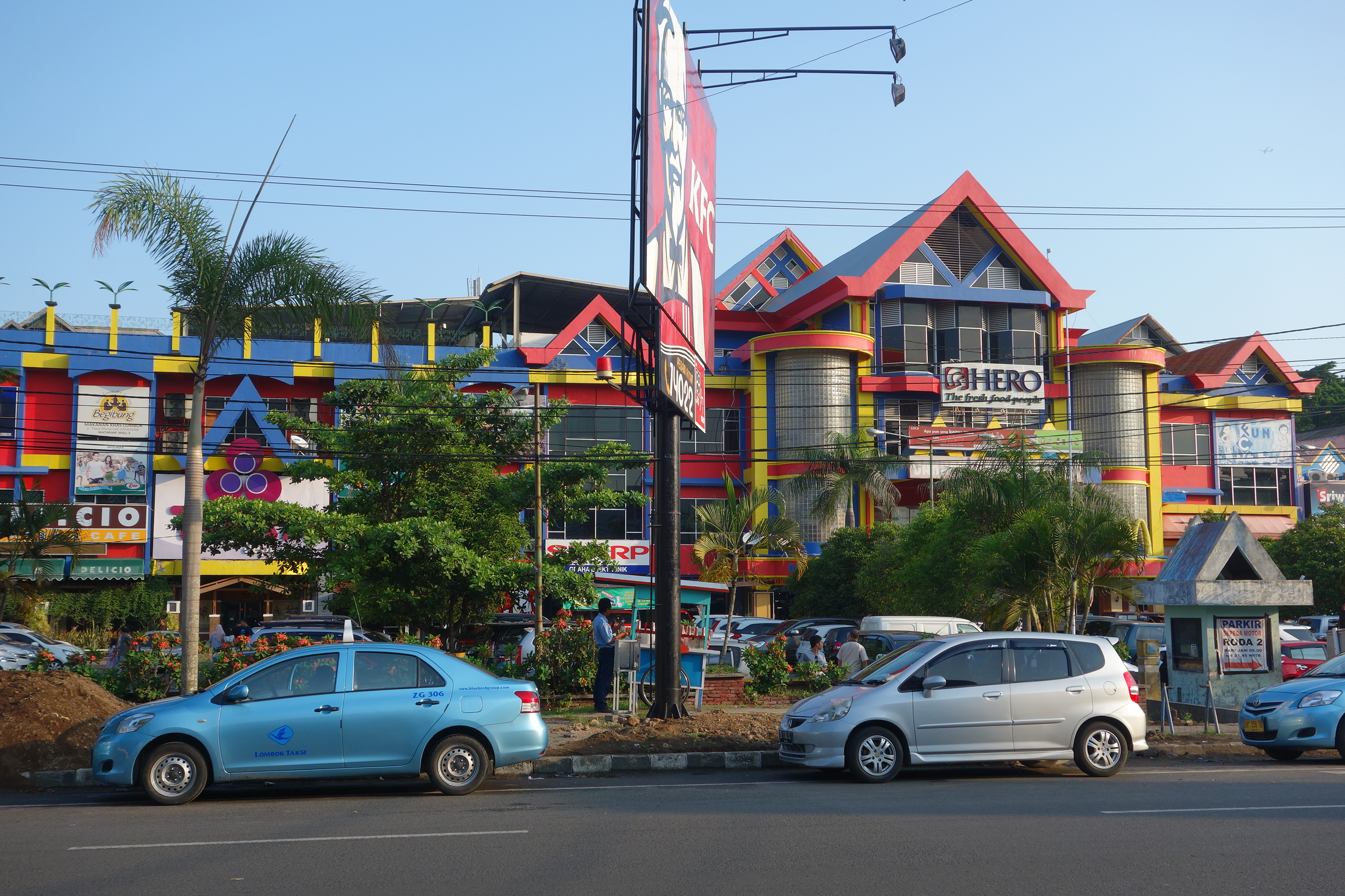 Central shopping mall in Mataram town, Lombok (May 2015)